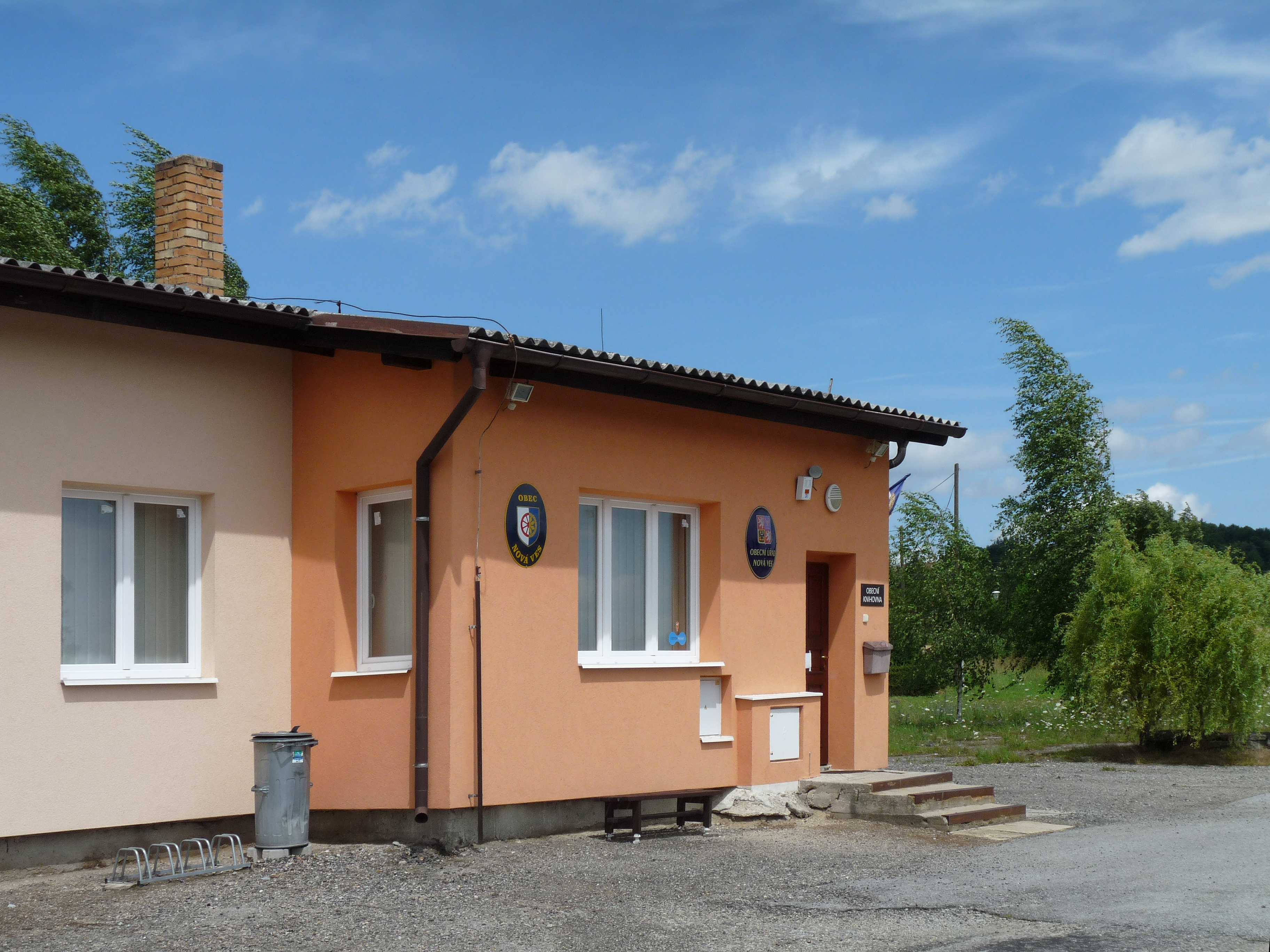 Municipal office building in the village of Nová Ves, České Budějovice District, Czech Republic. Česky: Budova obecního úřadu v obci v obci Nová Ves, okres Českých Budějovice.